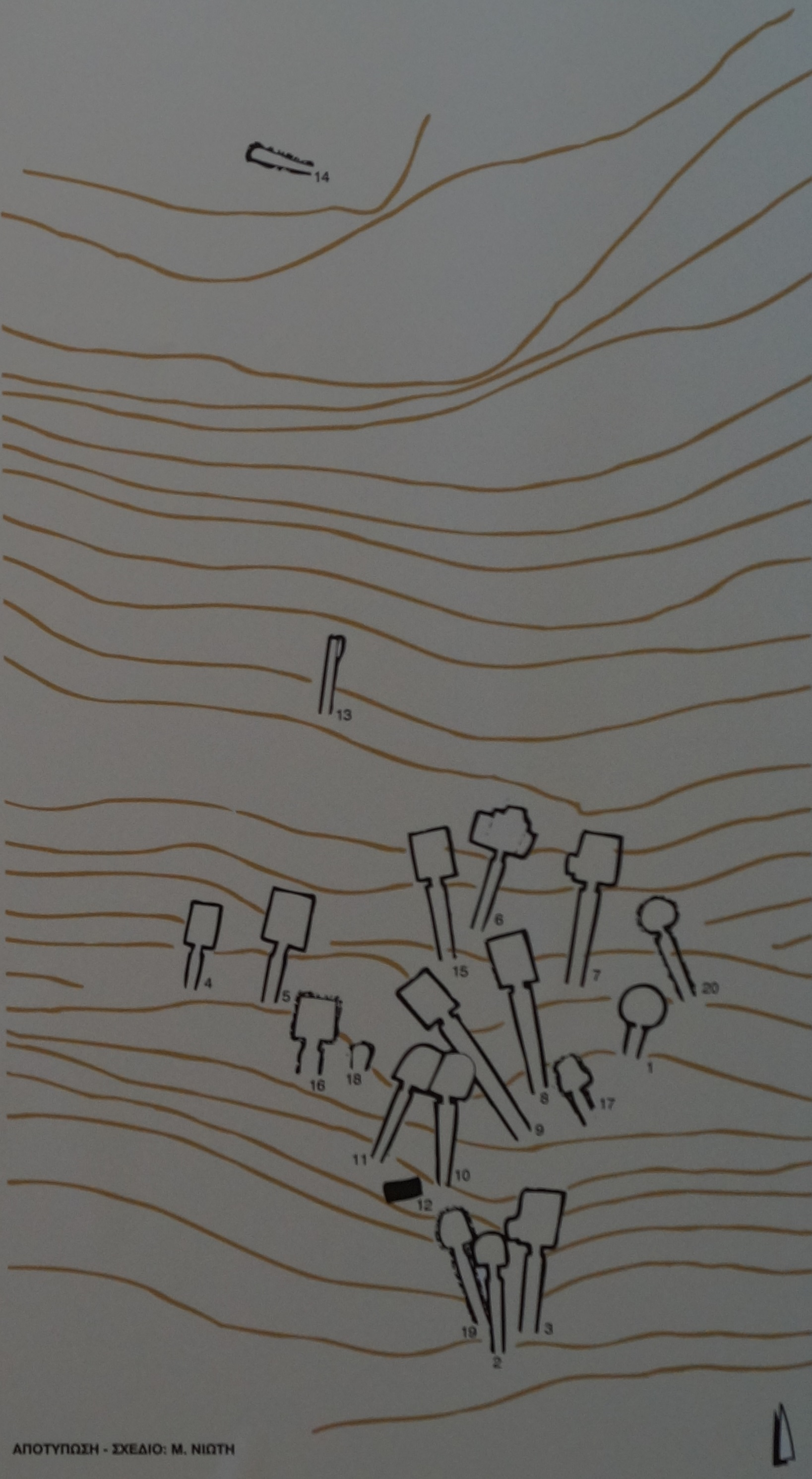 Archea Nemea, Corinthia, Greece: Plan of the Mycenaean cemetery of Aidonia in the Archaeological Museum of Nemea.